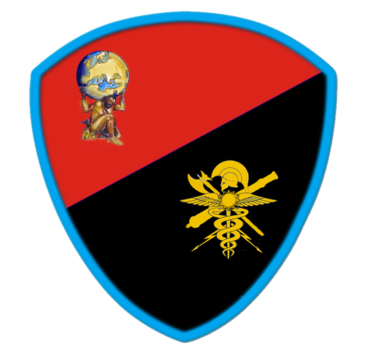 Italian Army: Coat of Arms of the Logistic Support Command